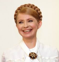 Prime minister of Ukraine Julia Tymoshenko